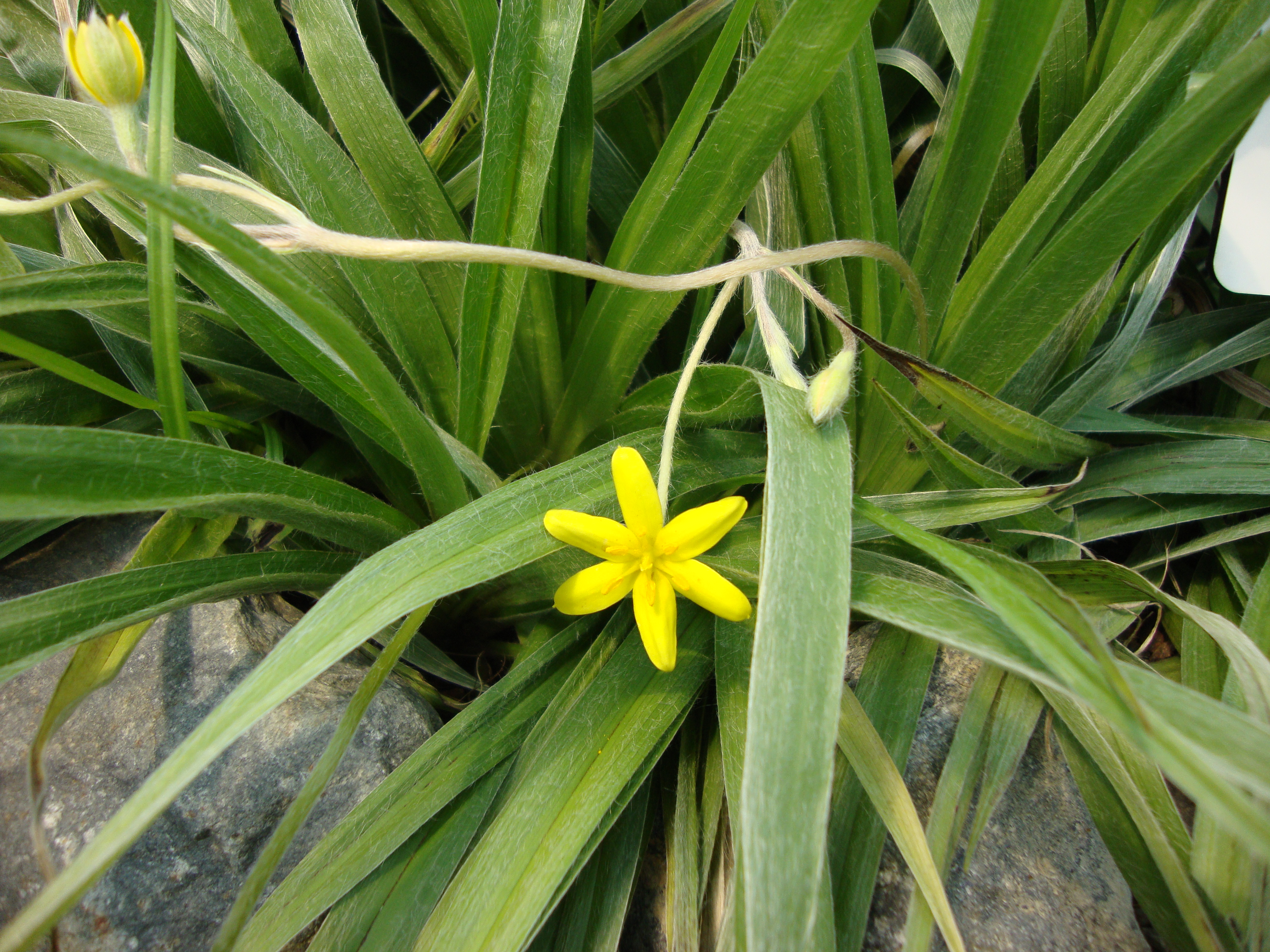 Common goldstar or Yellow star grass (Hypoxis hirsuta) in the Glasshouses of Kaisaniemi Botanical Garden